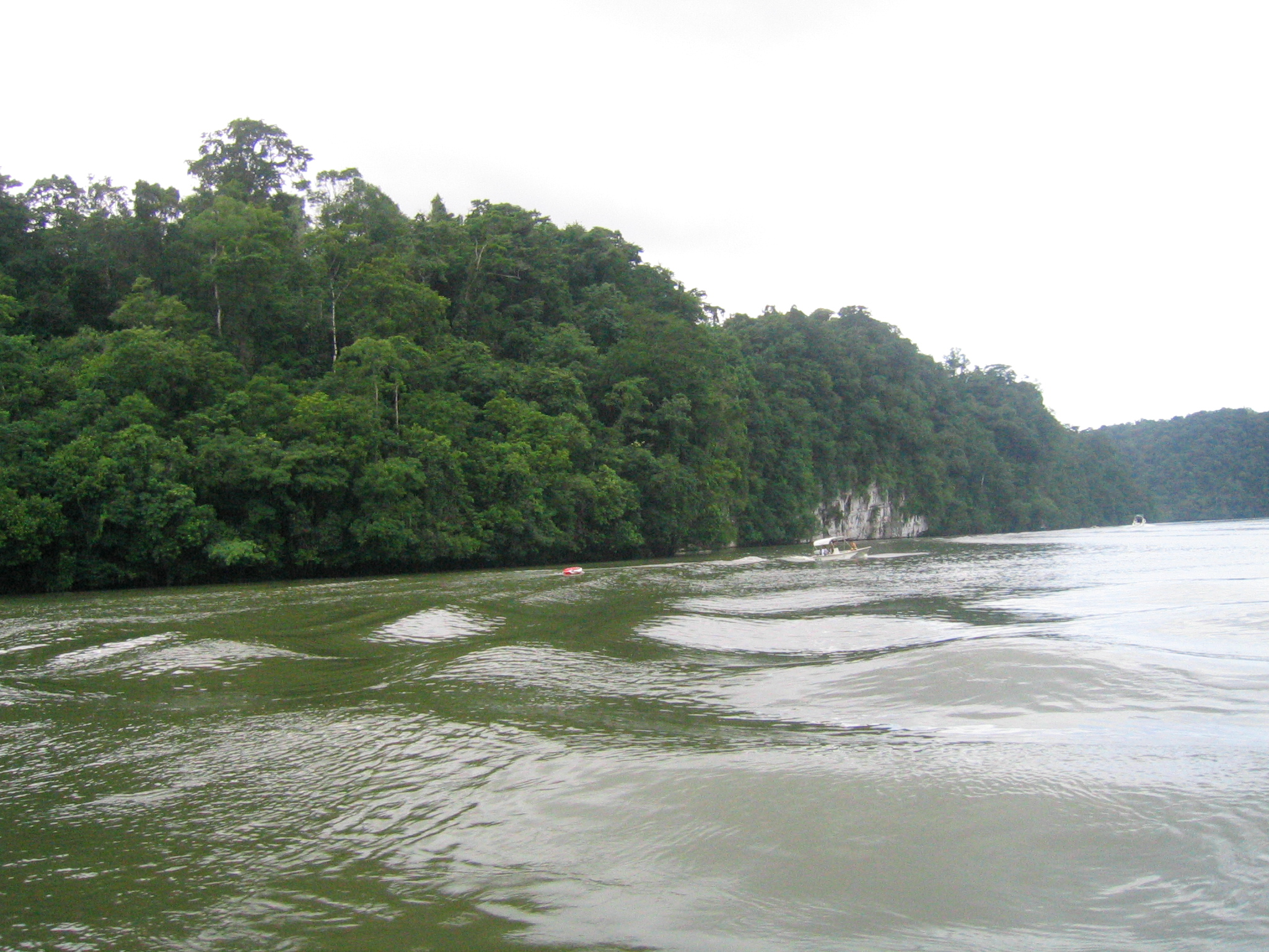 Dulce River in Guatemala.